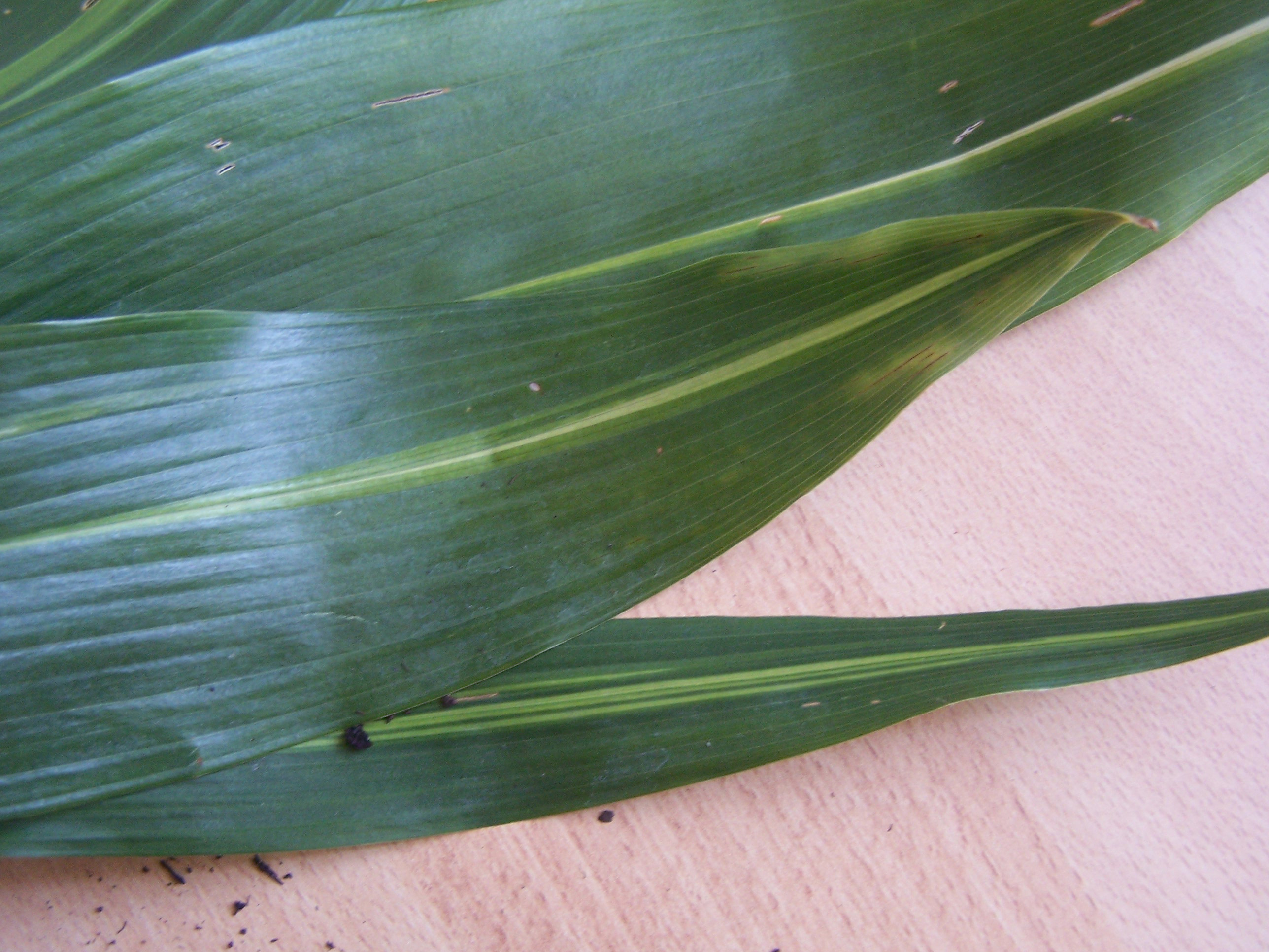 Aspidistra elatior Lennons Song